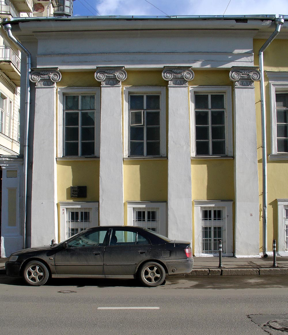 Konstantin Stanislavsky memorial museum in Leontyevsky Lane, Moscow.